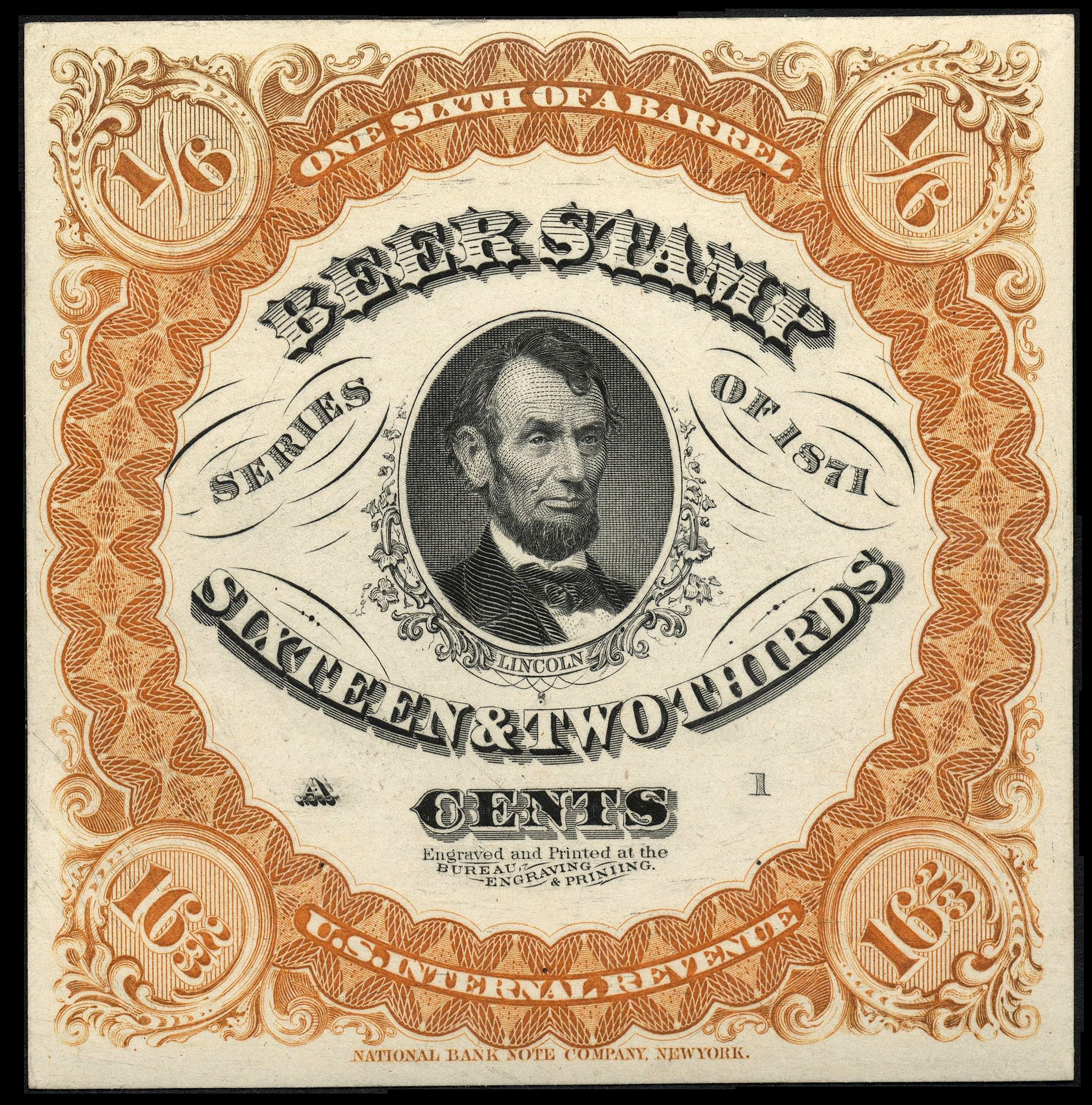 Image of Beer revenue stamp depiciting Lincoln